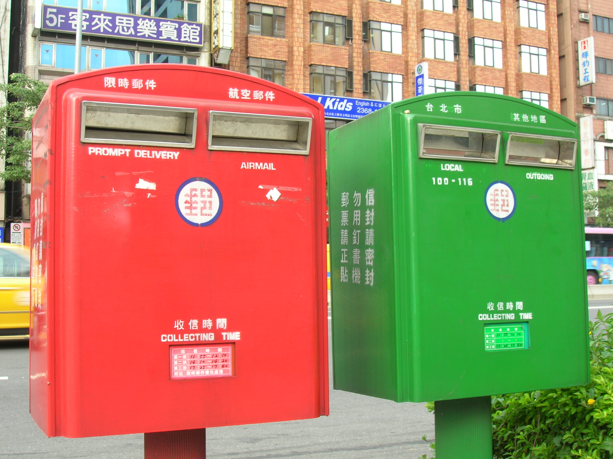 Postbox in Taiwan. (Photo taked in Gongguan, Taipei)